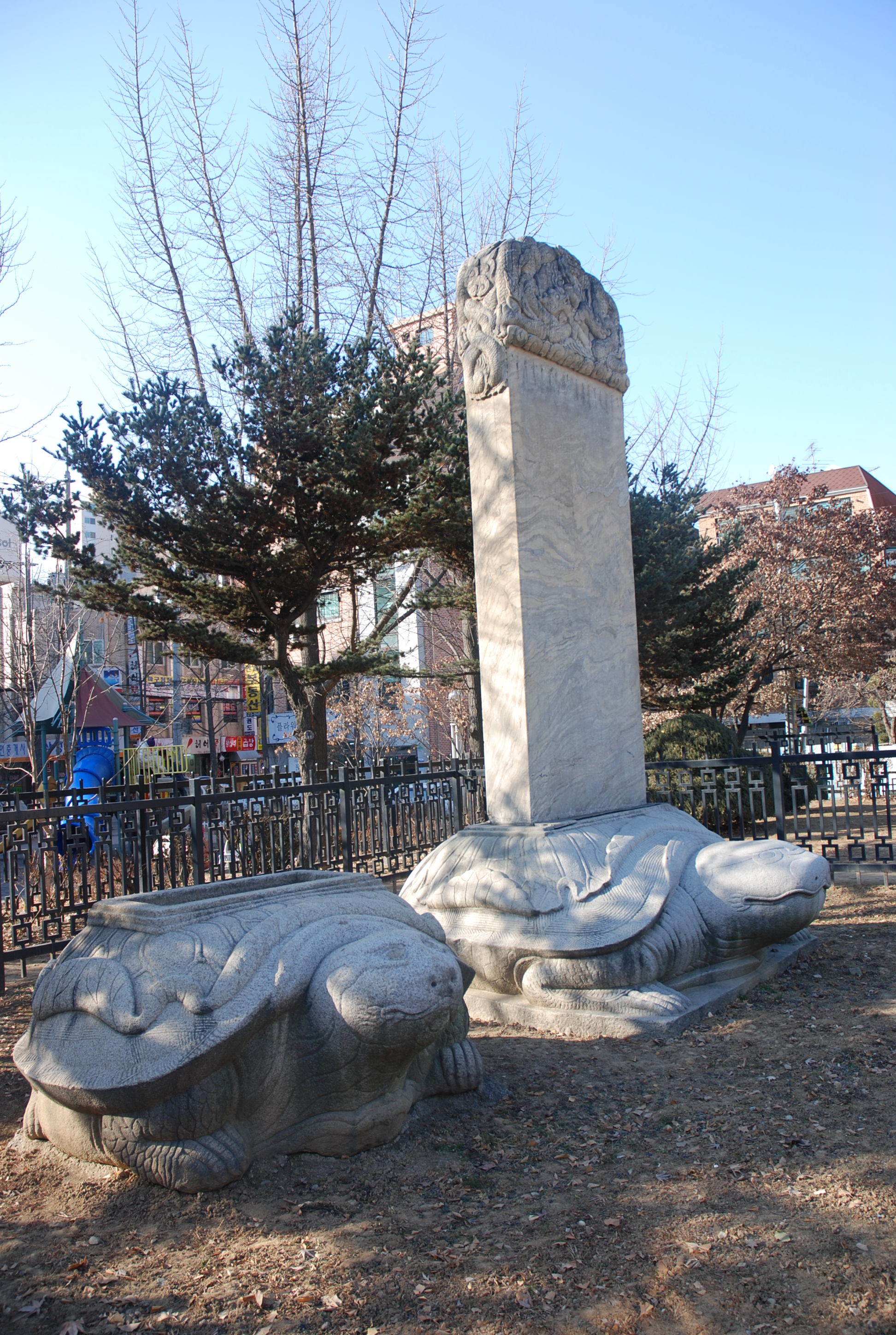 Samjeondo Monument at Seoul